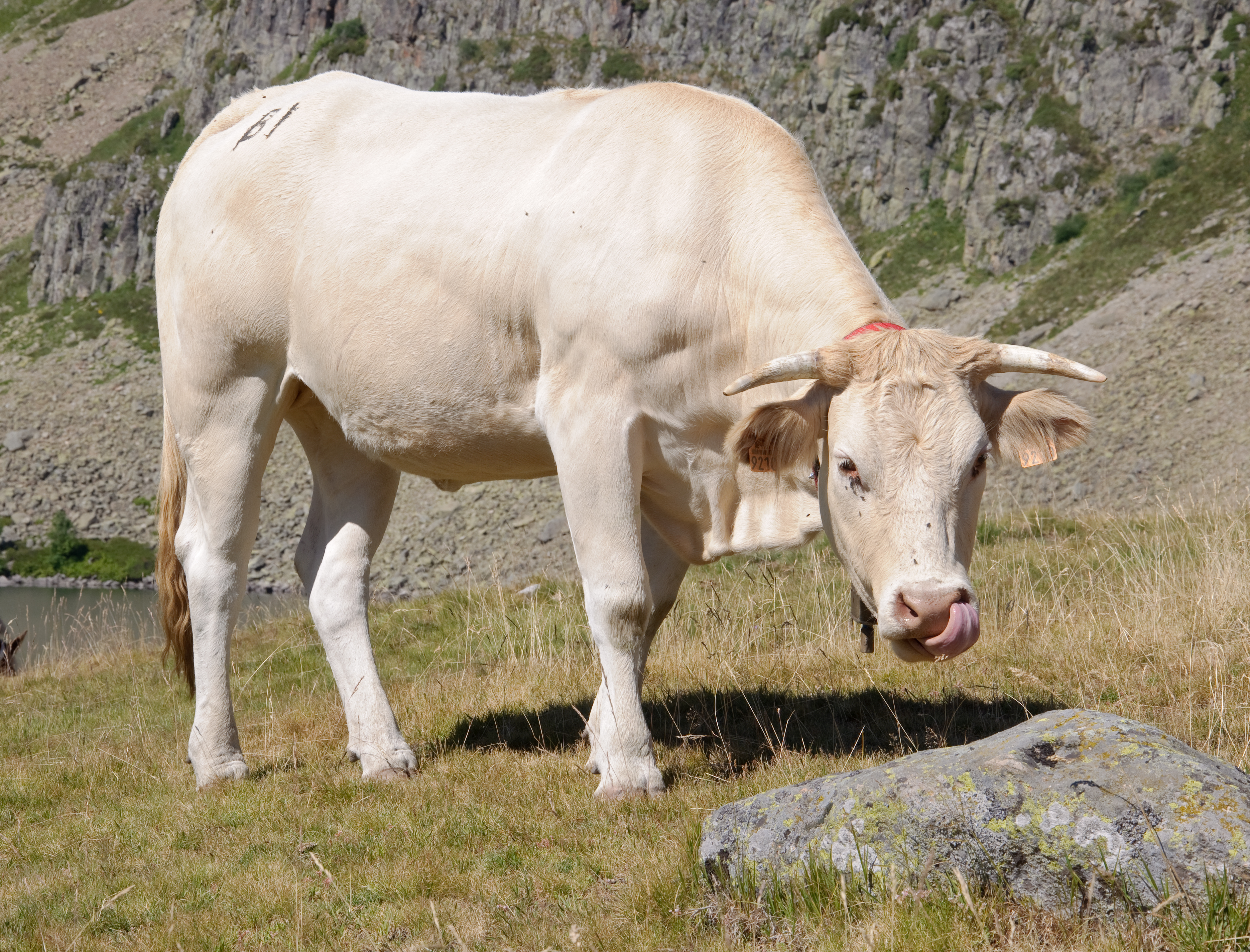 Blonde d'Aquitaine on summer mountain pasture in the Pyrenees, by the Roumassot lake.